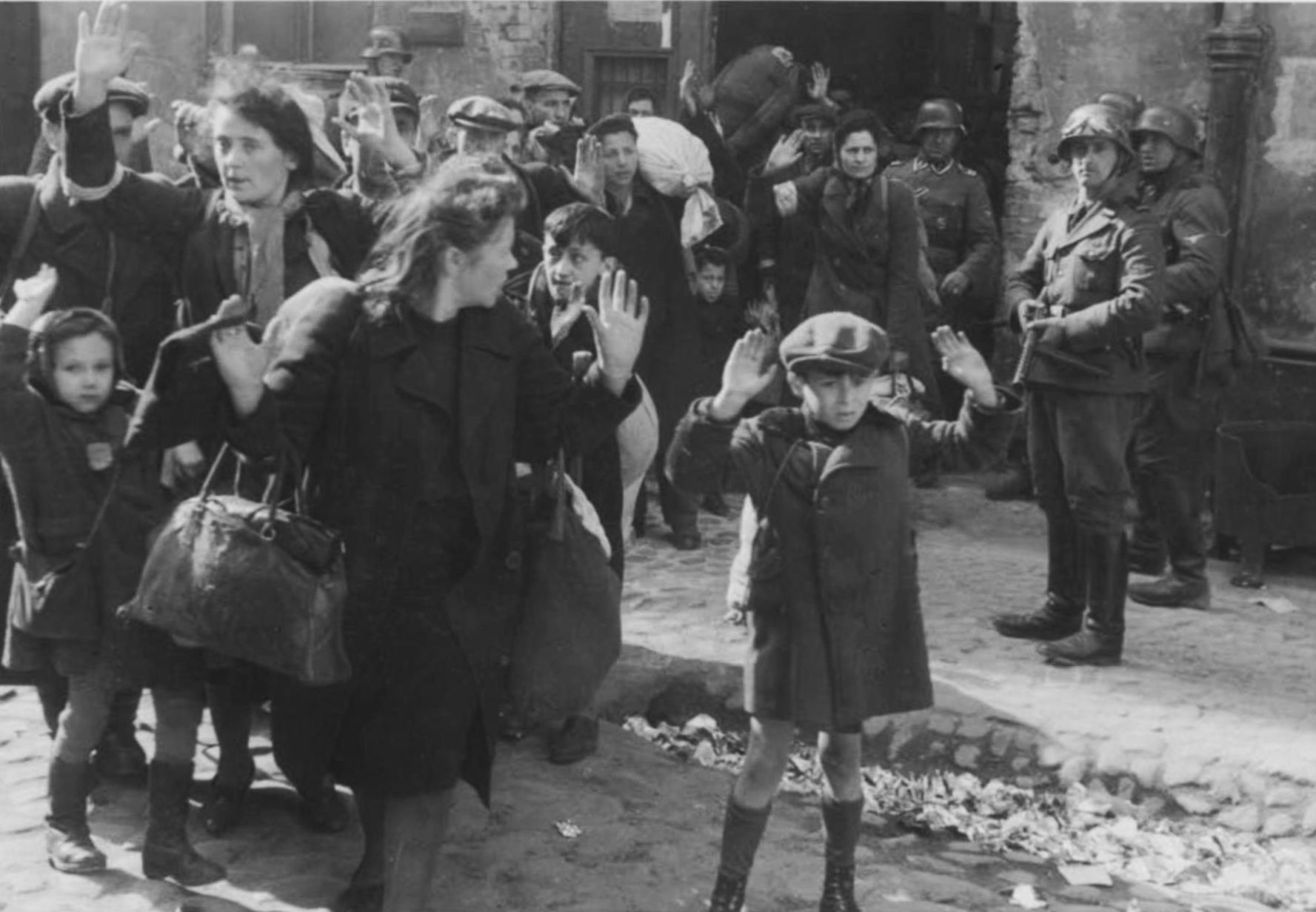 Warsaw Ghetto Uprising (Poland) - Photo from Jürgen Stroop Report to Heinrich Himmler from May 1943. One of the most famous pictures of World War II.